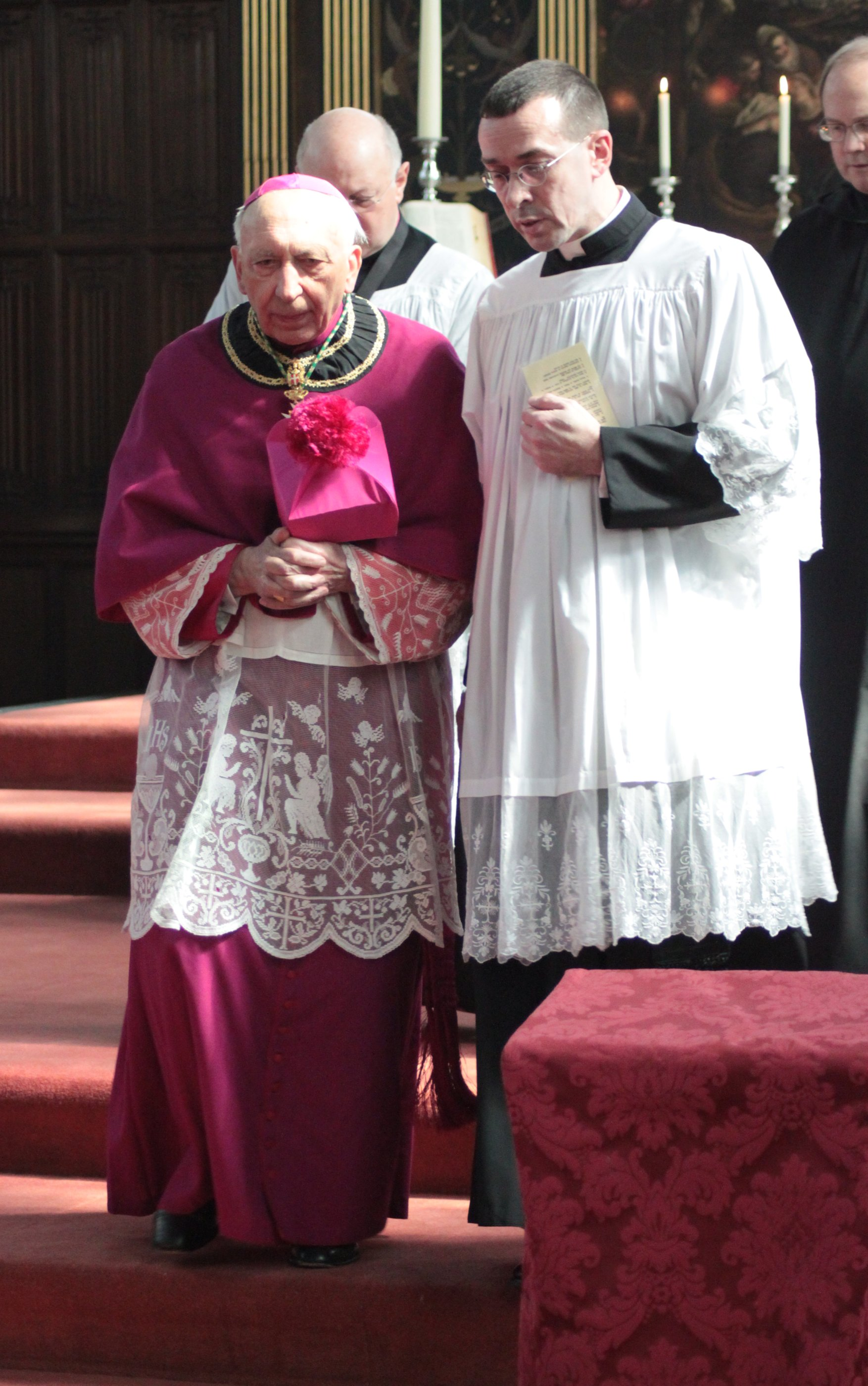 The Archbishop Angelo Acerbi is accompanied to his throne.